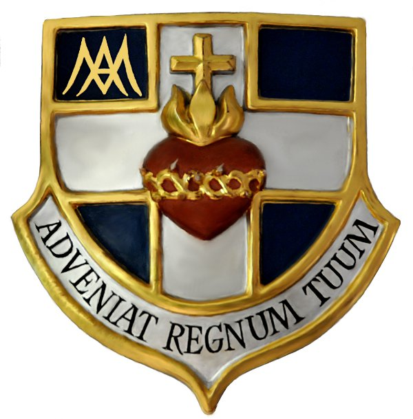 The Coat of arms of the Congregation of the Priests of the Sacred Heart of Jesus; SCJ; Dehonians